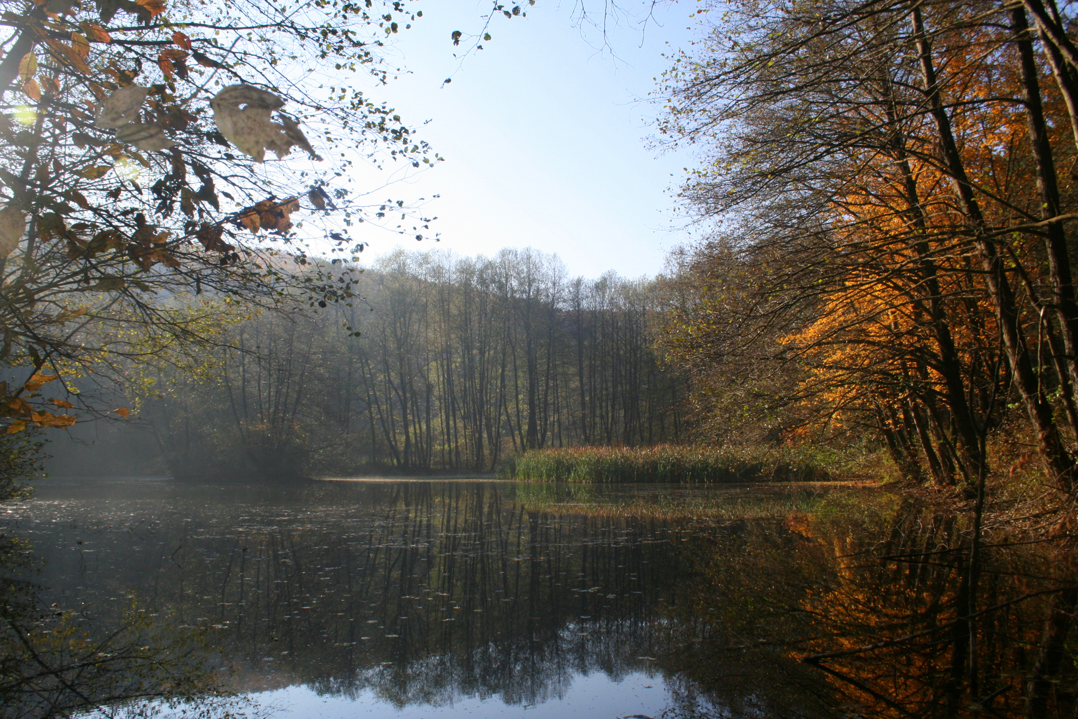 Liqen ne Parkun e Blinajes